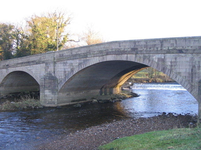 Bridge over the River Wenning at Hornby